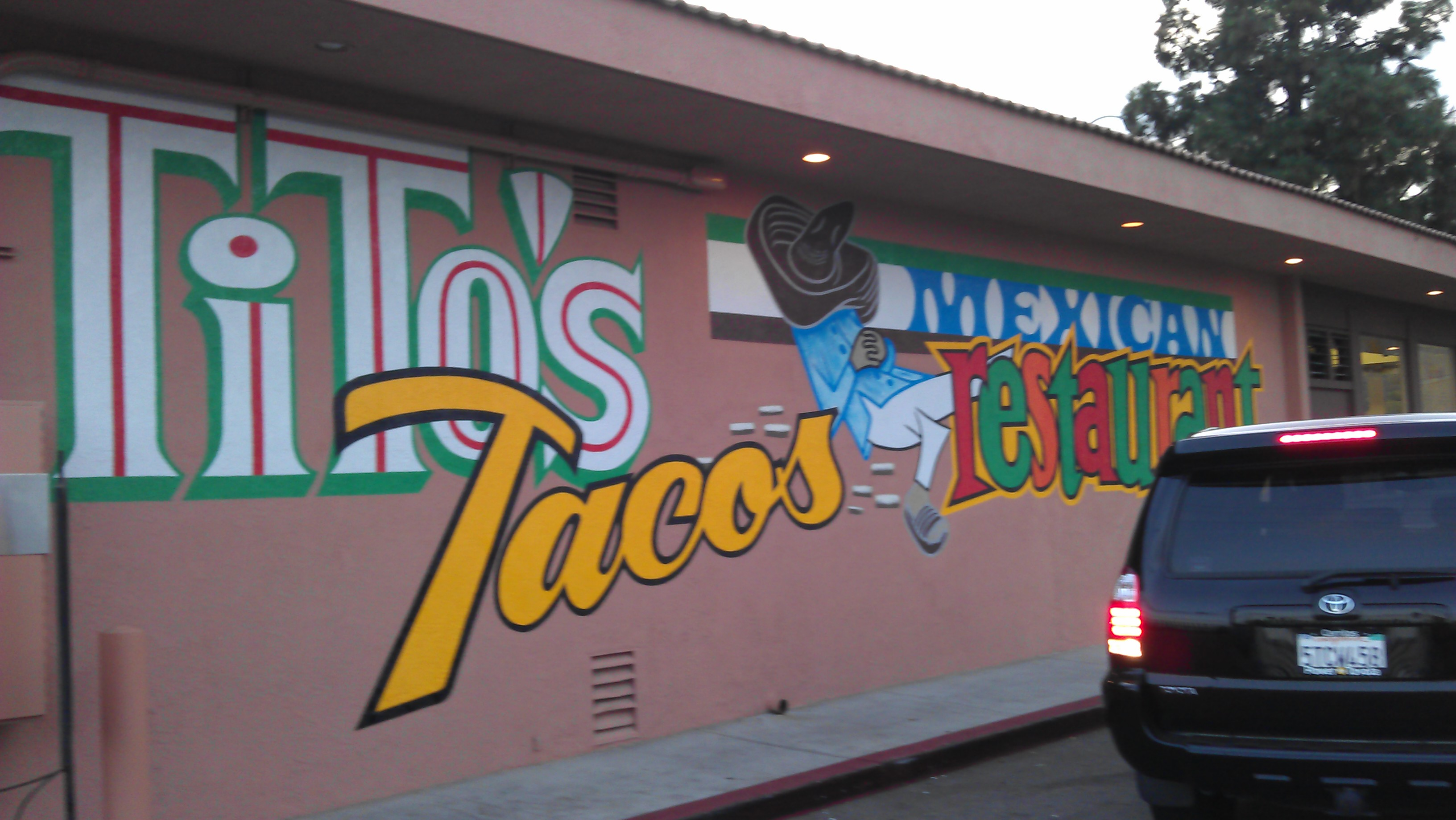 Exterior view of Tito's Tacos in Culver City, California